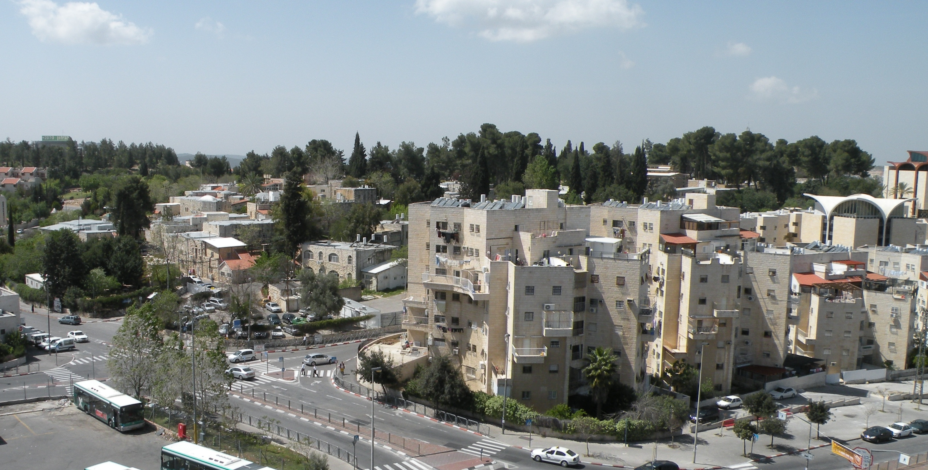 Psychiatric hospital Kfar Shaul In Jerusalem.